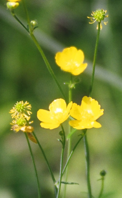 The buttercup (Ranunculus spp) occurs in many variations over many species, and can be found in a variety of habitats. This photo shows a group of Tall buttercups (R. acris) which bloom from June through August in low, damp meadows. Ø2004 D. Windrim Captioned As { }